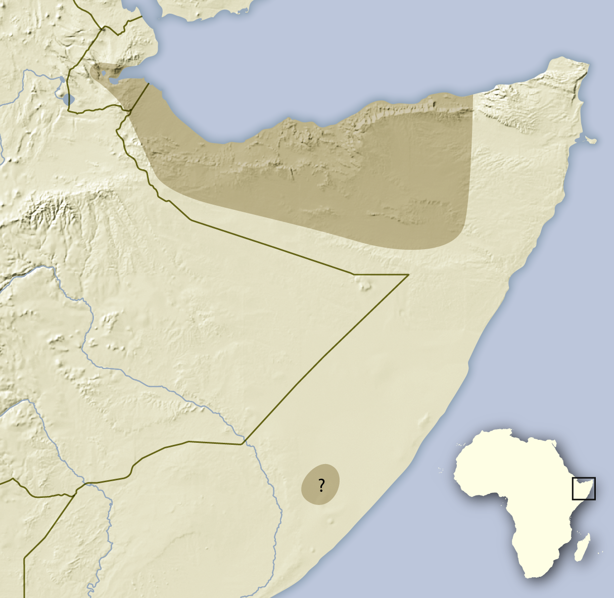 Distribution map of the Somali elephant shrew